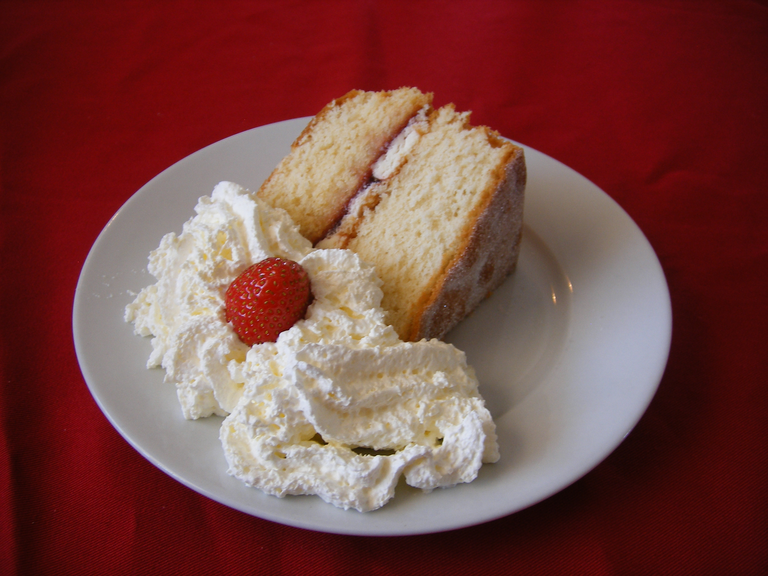 Victoria Sponge cake with cream and a strawberry. Served at the Welsh Highland Heritage Railway café. The cafe is now called the Russell Tea Rooms, and is run on behalf of the Welsh Highland Railway Limited